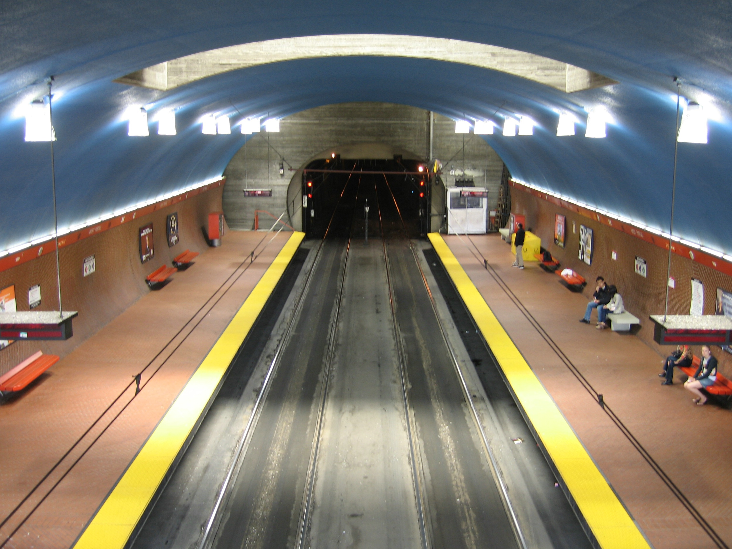 West Portal station of the Muni Metro System.